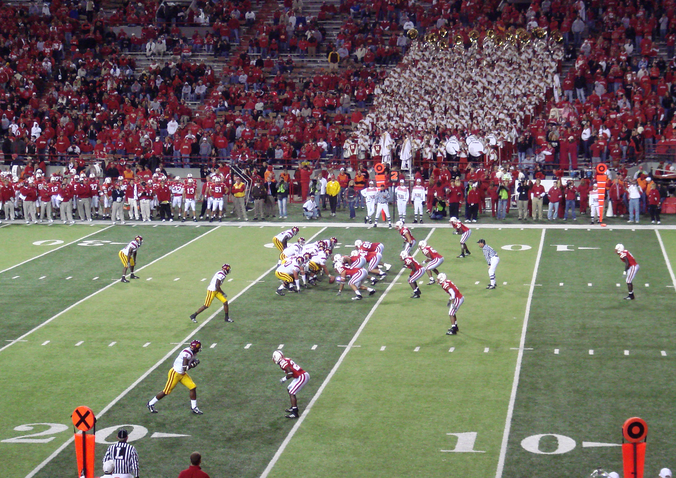 Memorial Stadium in Lincoln, Nebraska: home of the Nebraska Cornhuskers football team. On September 15, 2007 the then-#14 ranked Cornhuskers hosted the #1 ranked USC Trojans in the game of the week. Before 84,949, the Trojans felled the Huskers 49-31. In this photo John David Booty leads USC on his final drive, with the game well in hand during the 4th quarter.